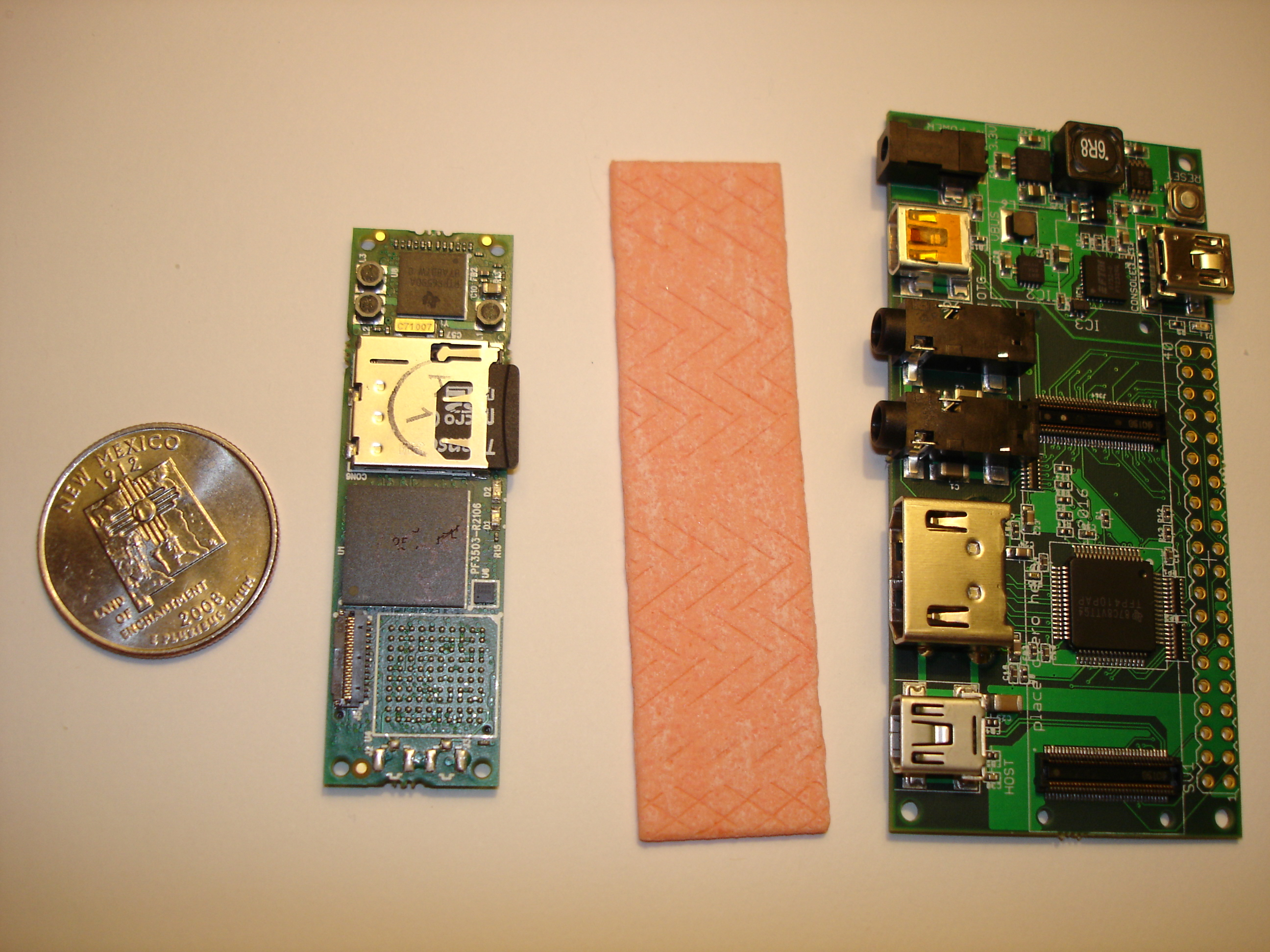 A side-by-side size comparison of a United States Quarter, a Gumstix(R) Overo(R), a Wrigleys(R) gumstick, and the Gumstix(R) Summit expansion board.